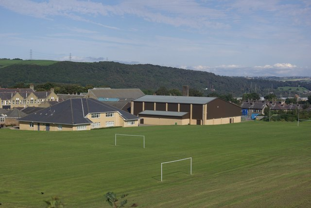 Brooksbank school from the rear It is nice to see that some thought has gone into the design of the new classroom block. Next to it is the school gym, which is always going to look like it is a gym.